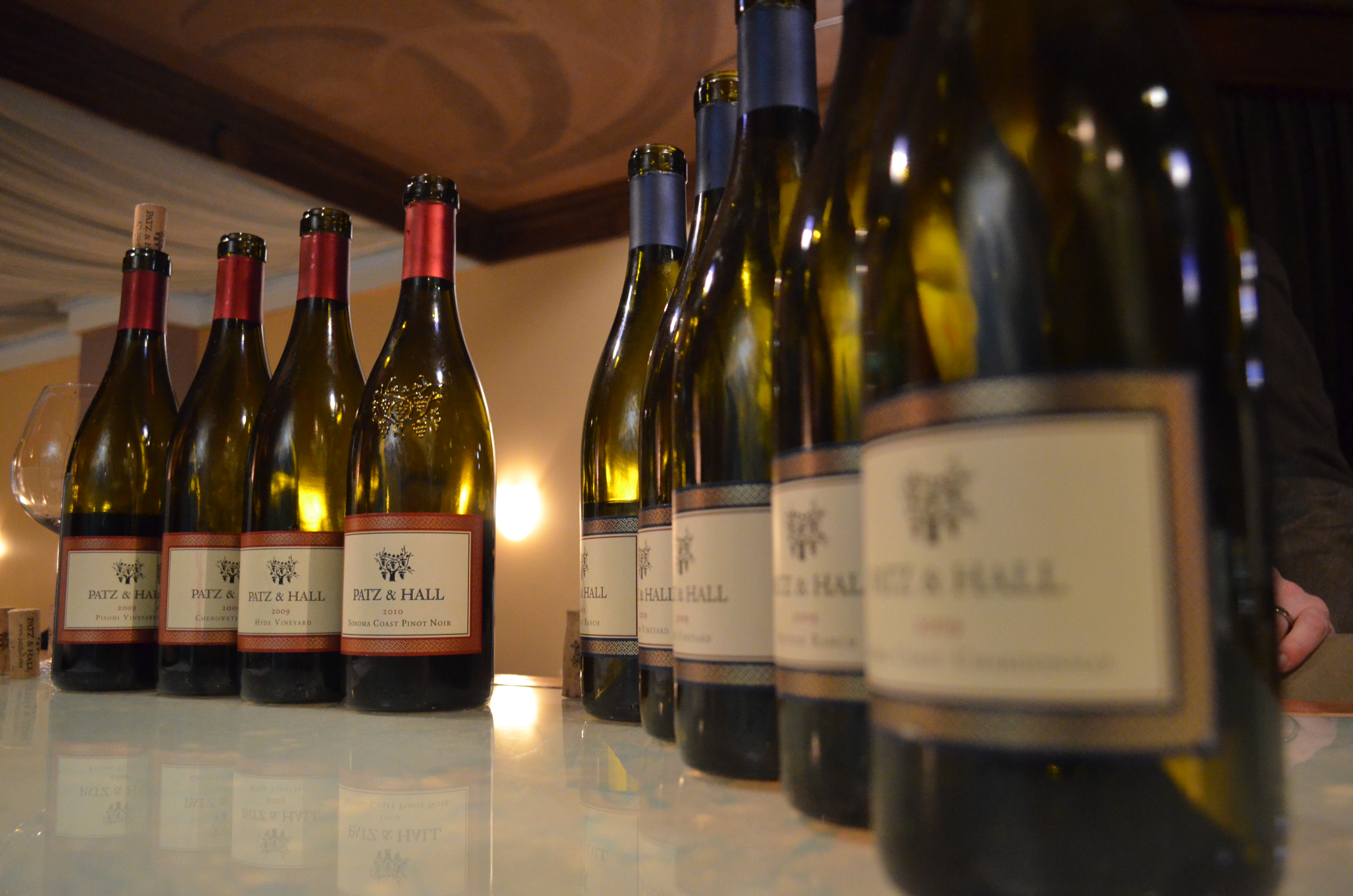 A Selection of fine wines.